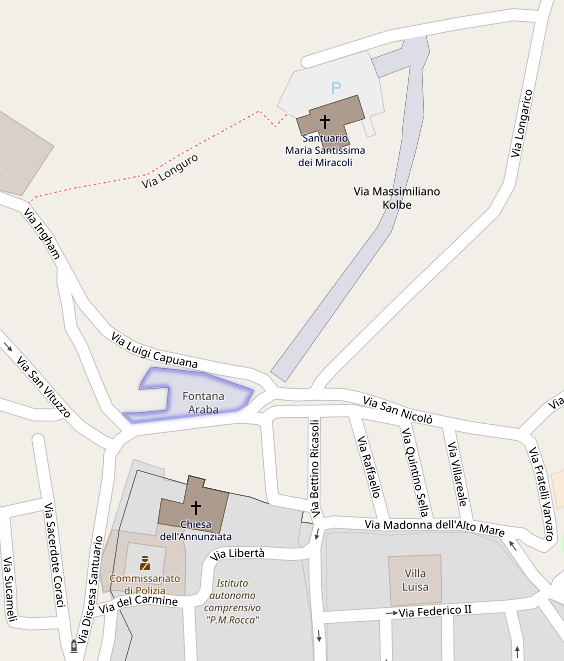 Screenshot of OpenStreetMap showing the Fontana araba in Alcamo